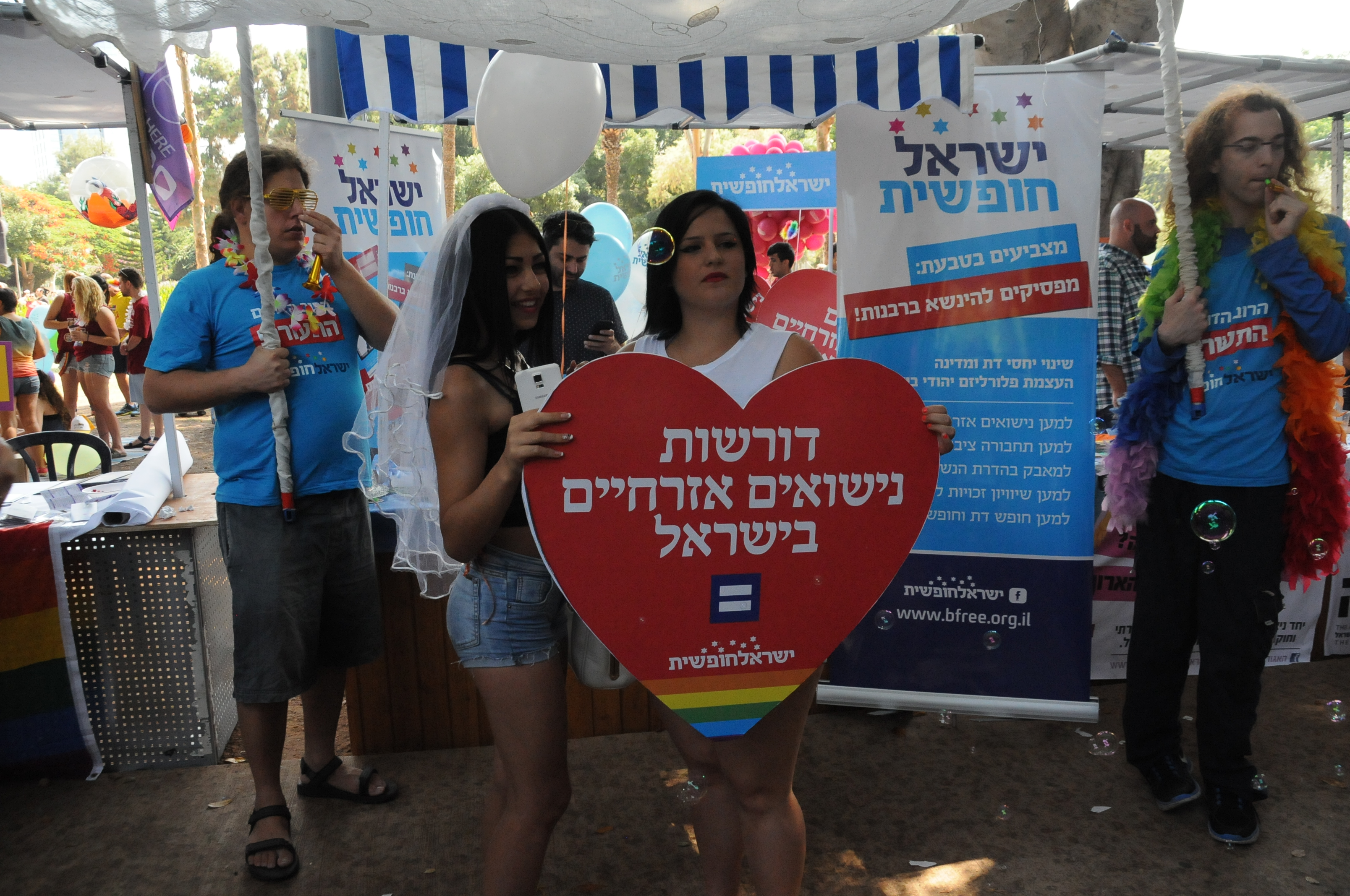 Vacation Experience